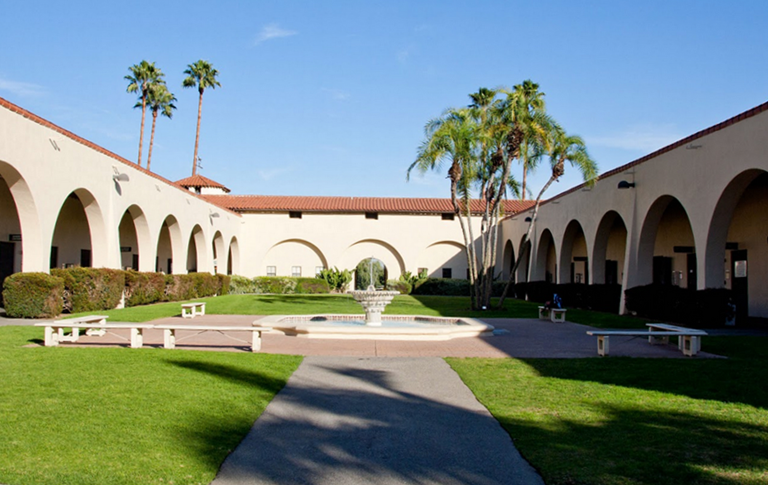 Kellogg's ranch at Cal Poly University in Pomona, California, United States